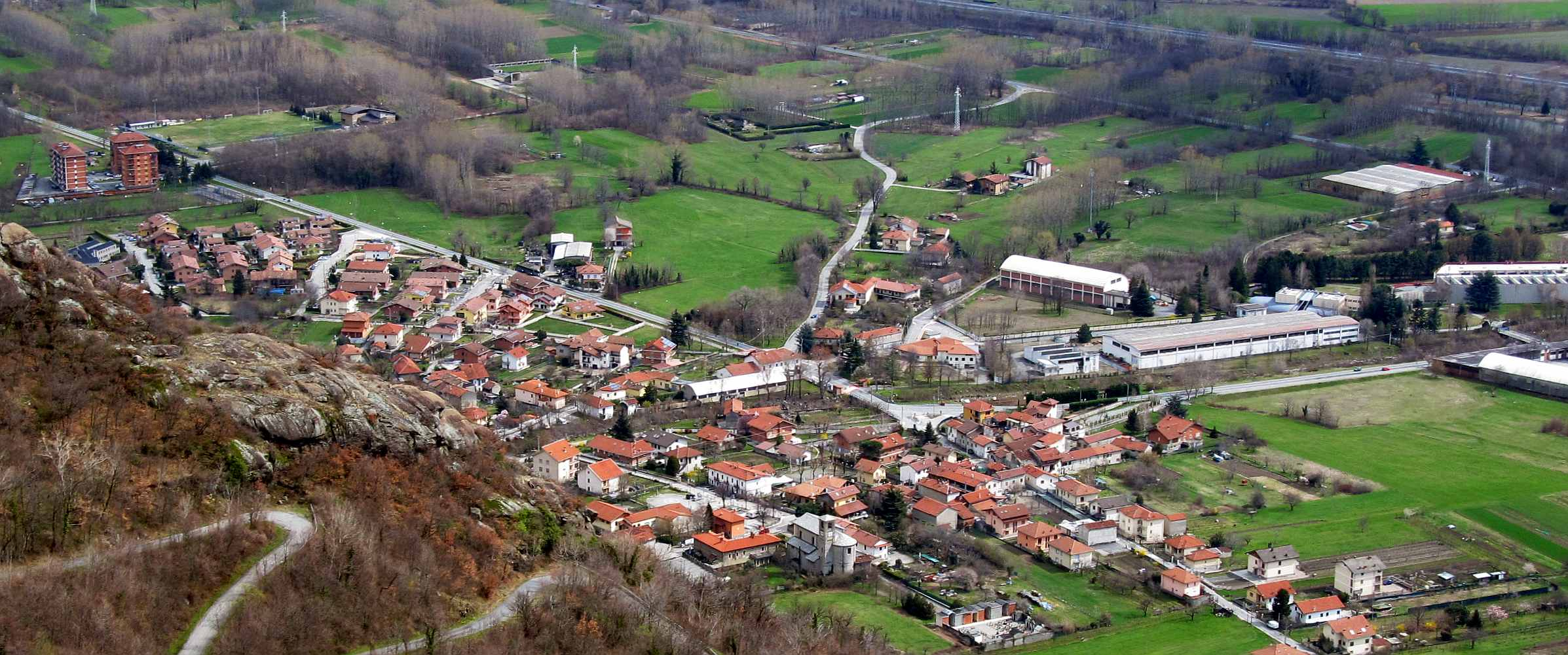 Caprie (TO; Italy): panorama fron truc del Serro